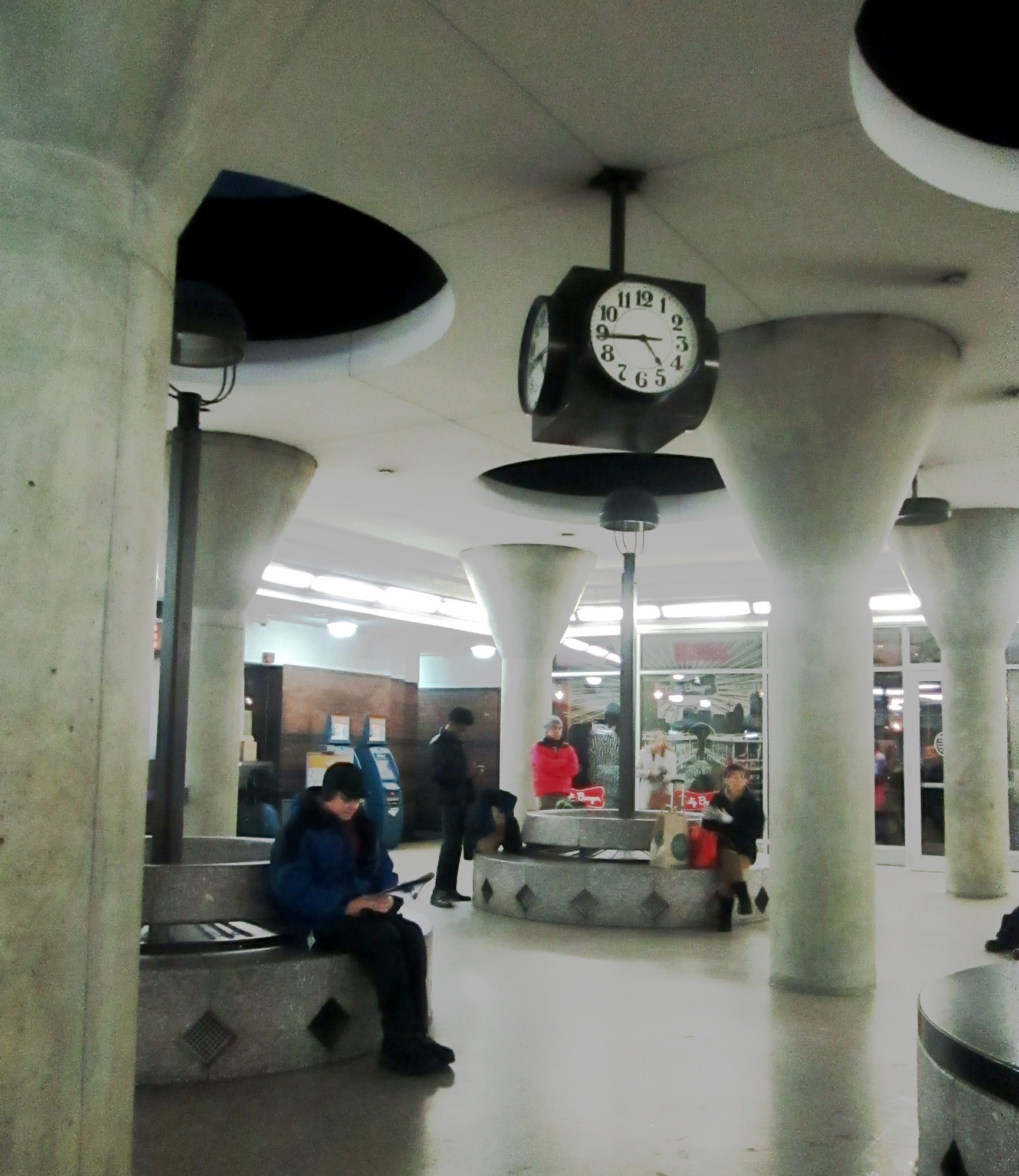 The waiting room at Back Bay station in Boston, Massachusetts